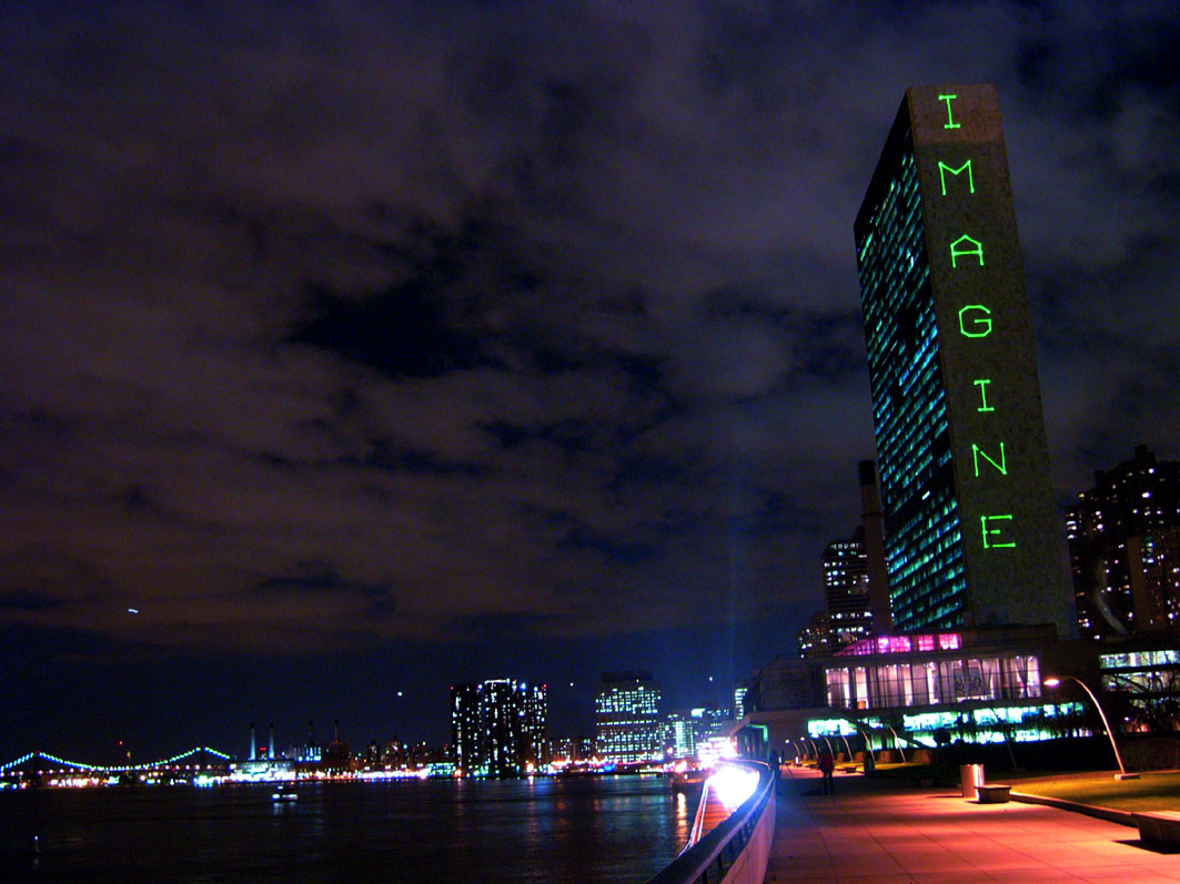 the helloworld project, interactive laser text projection, United Nations HQ, New York